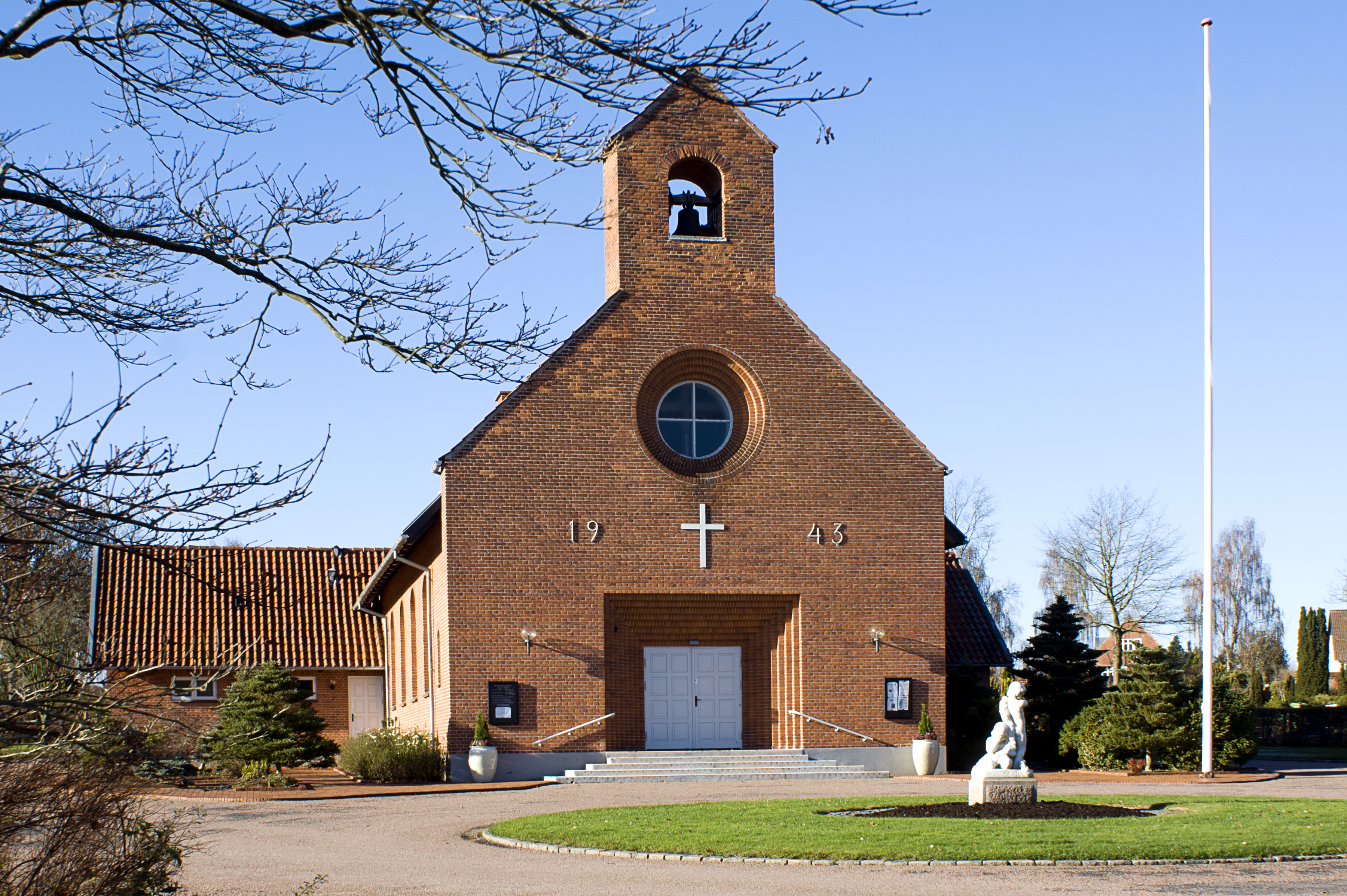 Church called Søndermarkskirken in Vejle in the Southern part of Jutland in Denmark